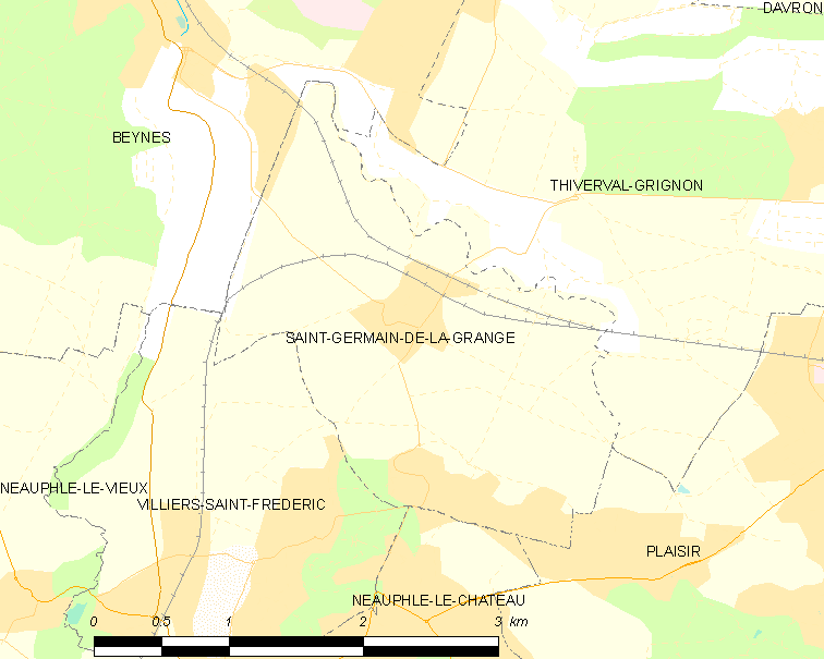 Map of French municipality Saint-Germain-de-la-Grange